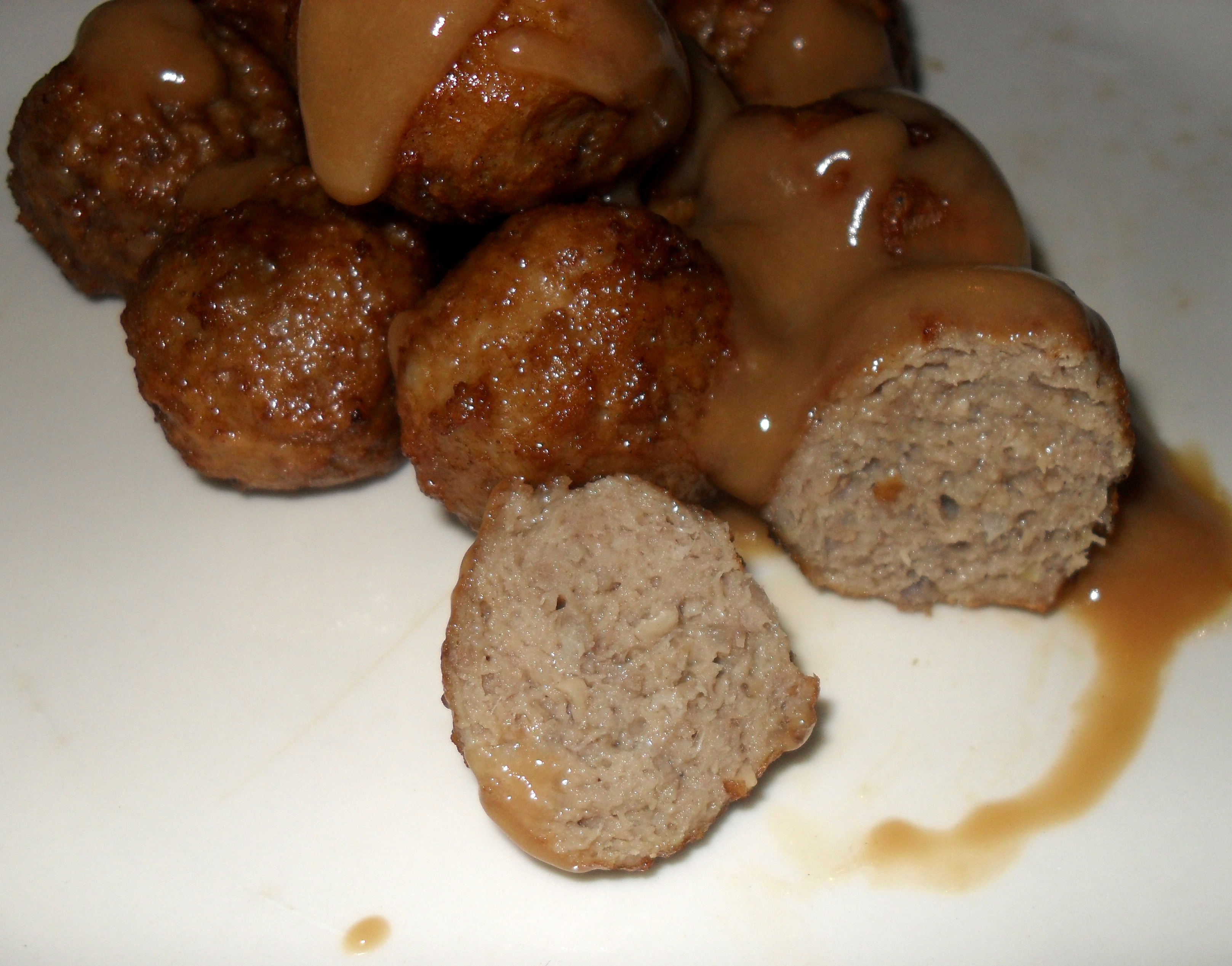 Swedish meatballs "Köttbullar" with cream sauce.